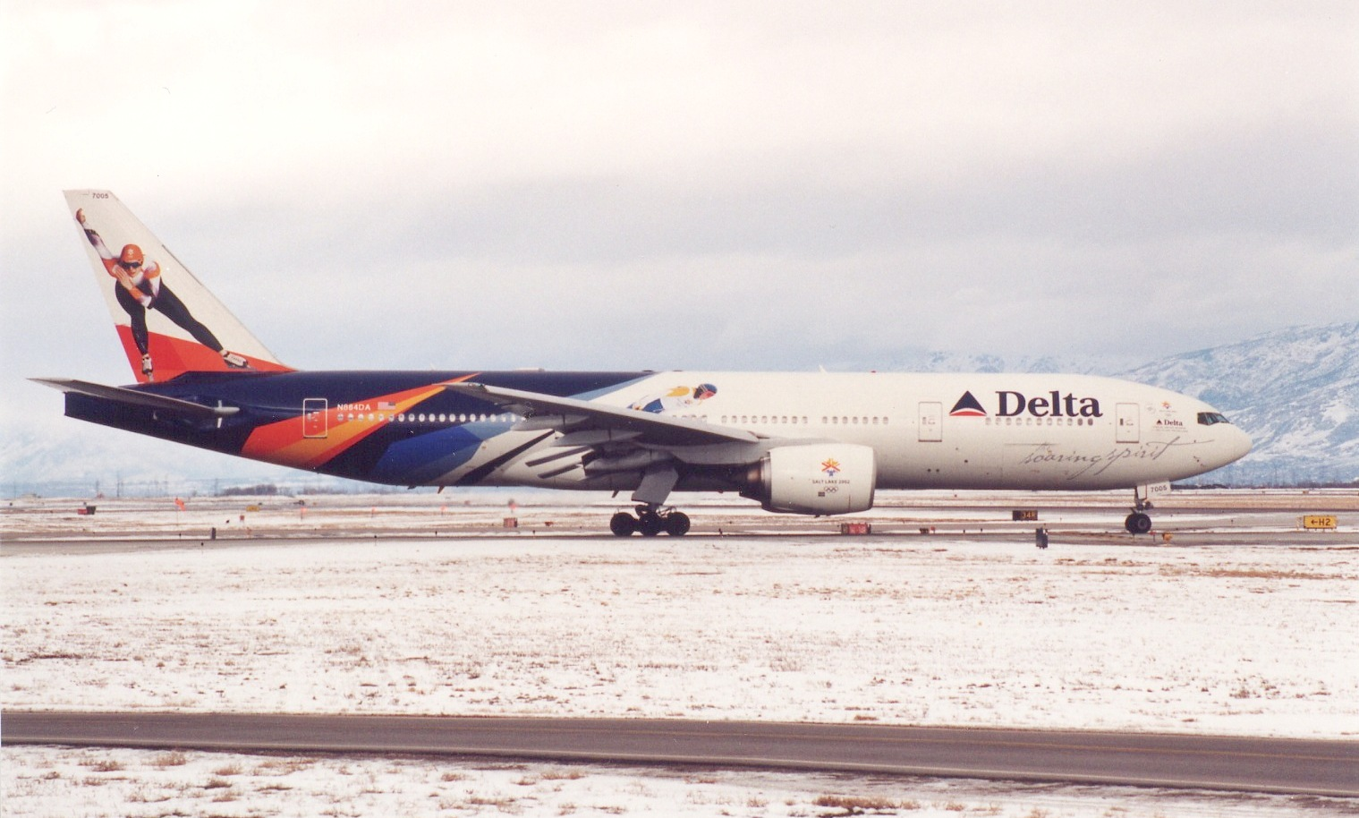 Delta's Boeing 777-200 commemorating the 2002 Winter Olympics in Salt Lake City.